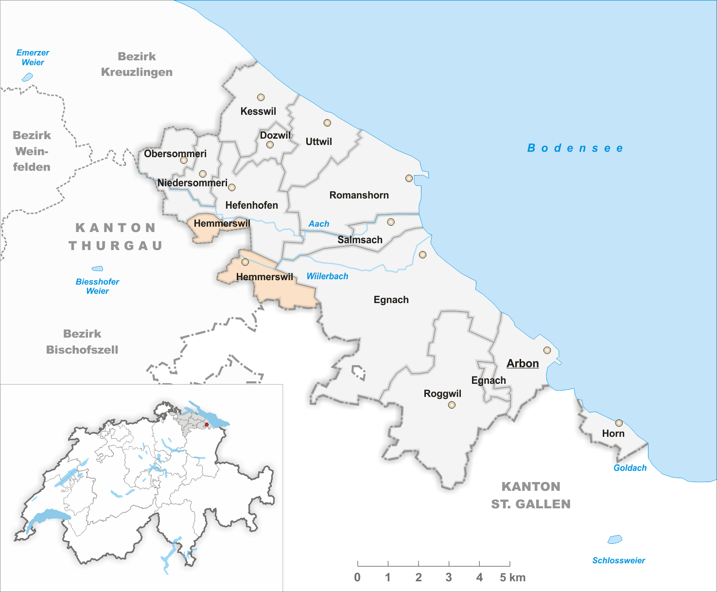 Municipality Hemmerswil